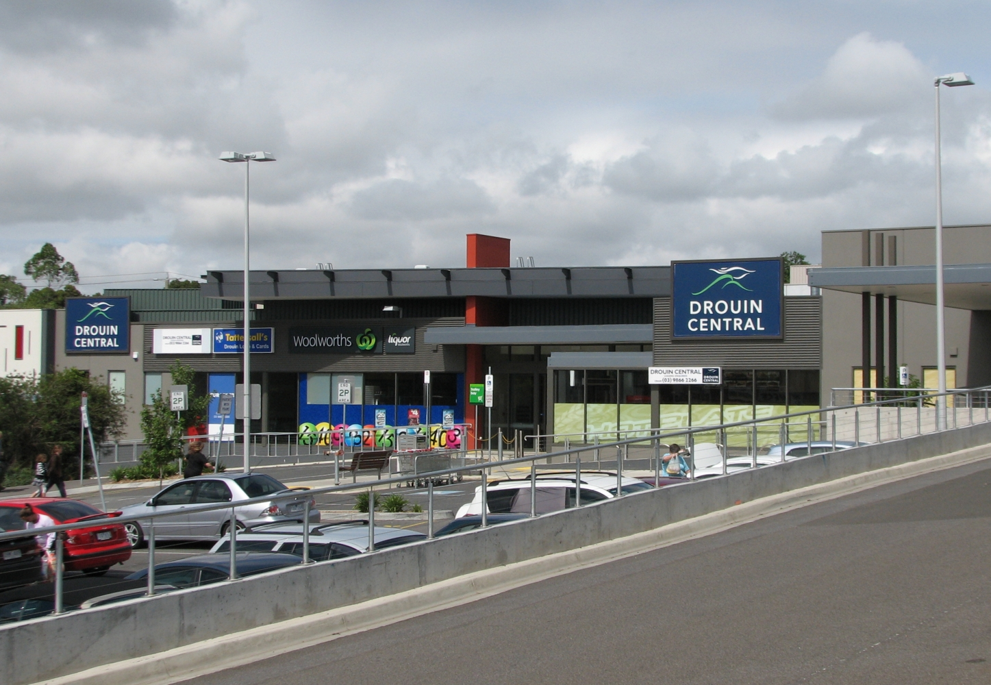 Drouin Central, Drouin, Victoria, Australia